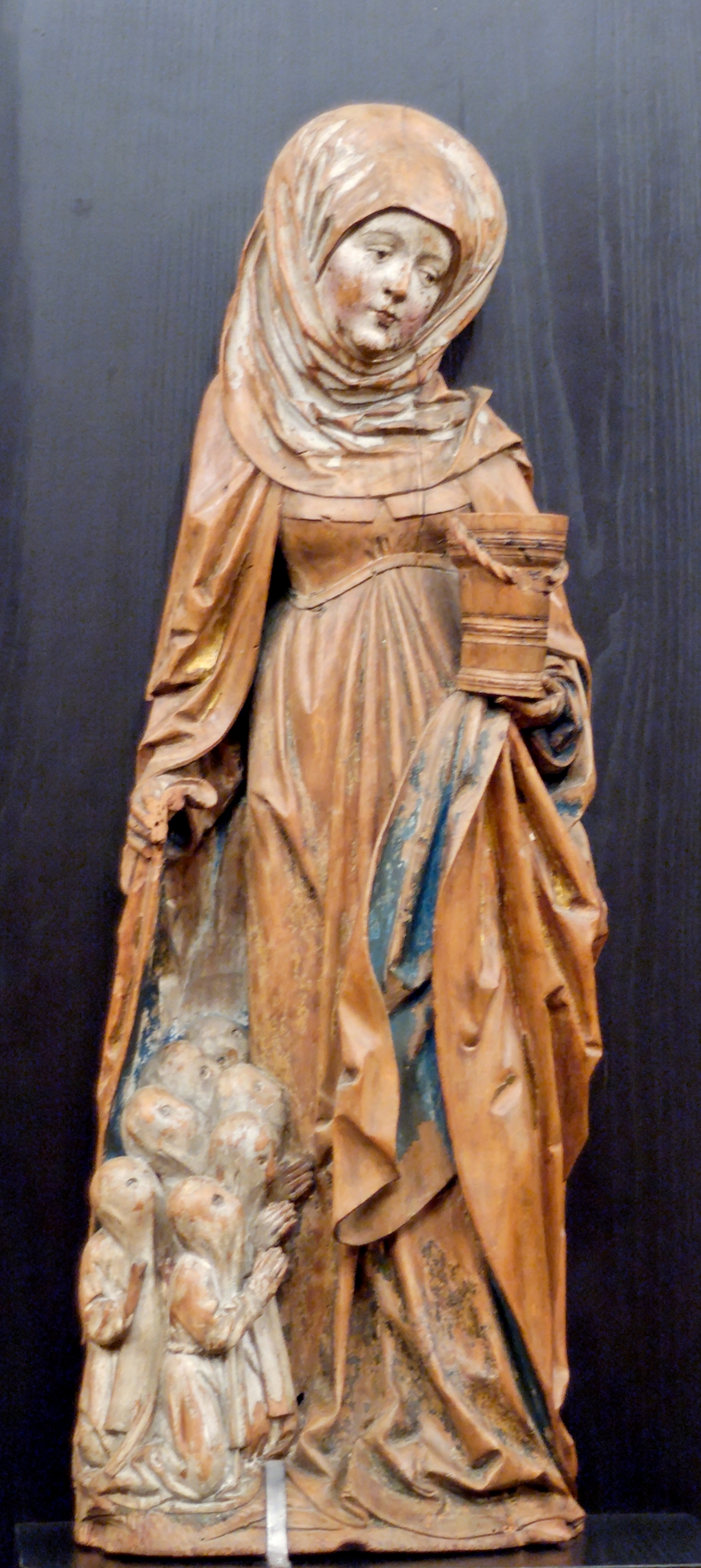 St. Martha (?) and penitents